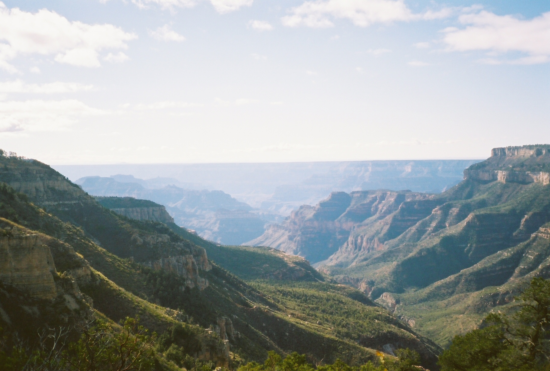 The canyon where the North Bass Trail is located, Swamp Point, Muav Canyon, at the southwest of the Kaibab Plateau. The canyon meets Shinumo Creek, coming out of the Shinumo Amphitheater, at Granite Gorge, Colorado River.